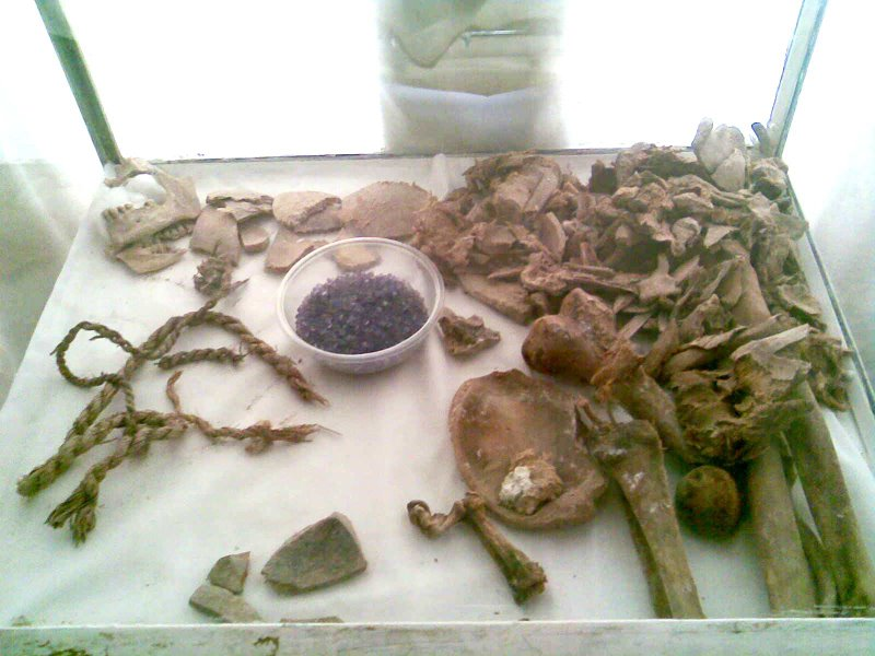 Remains of Salt Man 3 on display at Zanjan. One of the Saltmen found in 2004 in Douzlākh salt mines near Chehrābād, located on the southern part of the Hamzehlu village, on the west side of the city of Zanjan, Zanjan Province in Iran.